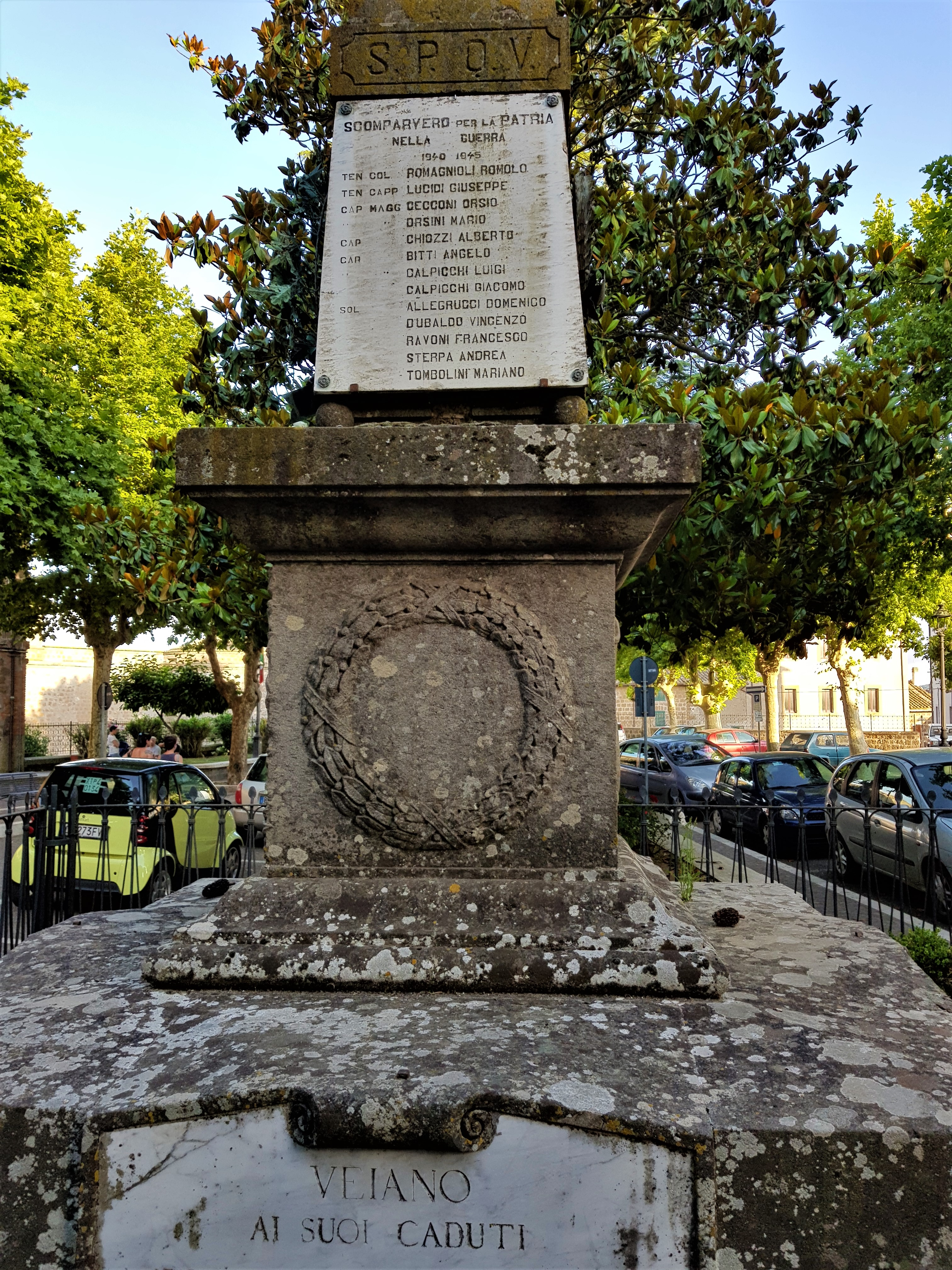 Monumento ai caduti della seconda guerra mondiale.